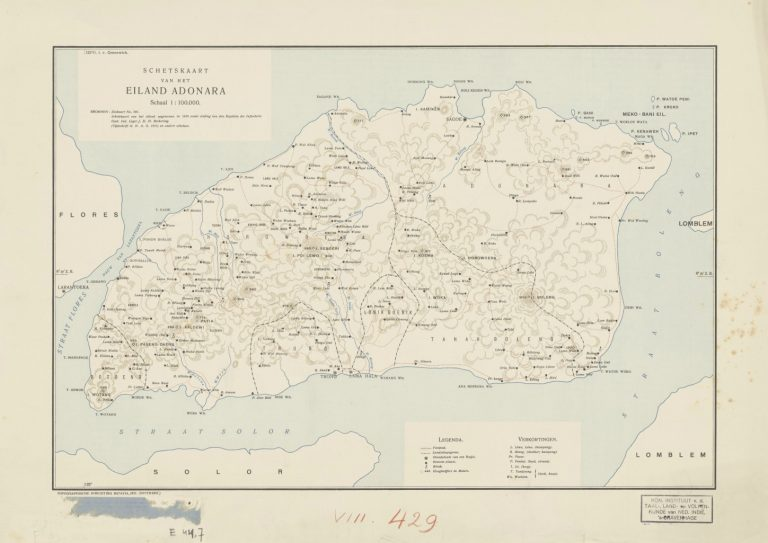 Topograpic map of Adonara, Dutch East Indies. 1911 map.